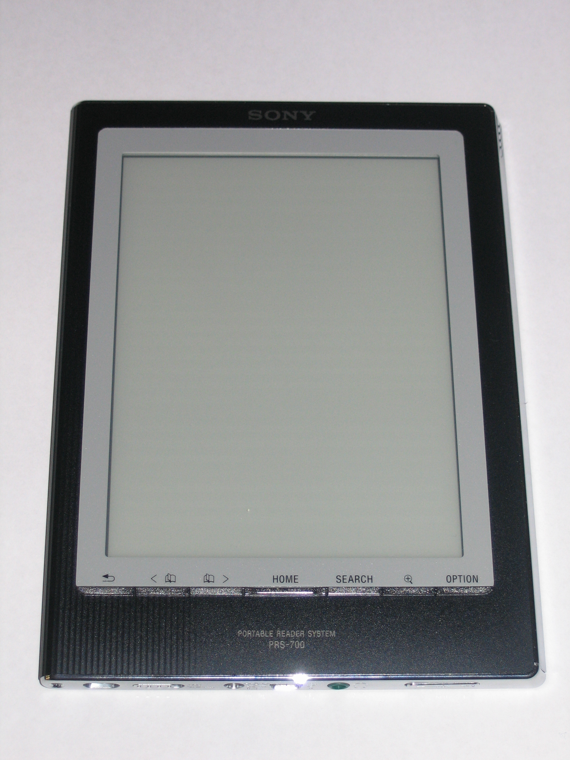 A photograph taken of the Sony PRS-700, without its included soft cover, and showing the various ports and switches along its bottom.